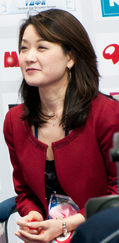 2011 Cup of Russia, free skating.